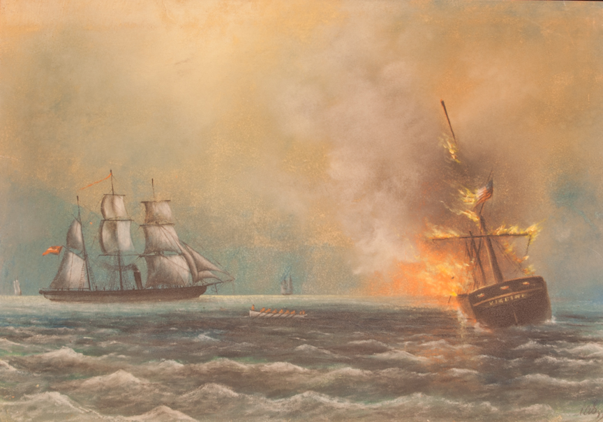 CSS Alabama sinks whaler Virginia (Near the Azores, September 17, 1862). An original newspaper heading: December 16, 1882 -- Leslie's Weekly, Frank Leslie's Illustrated Newspaper" can be found at the reverse of the picture.